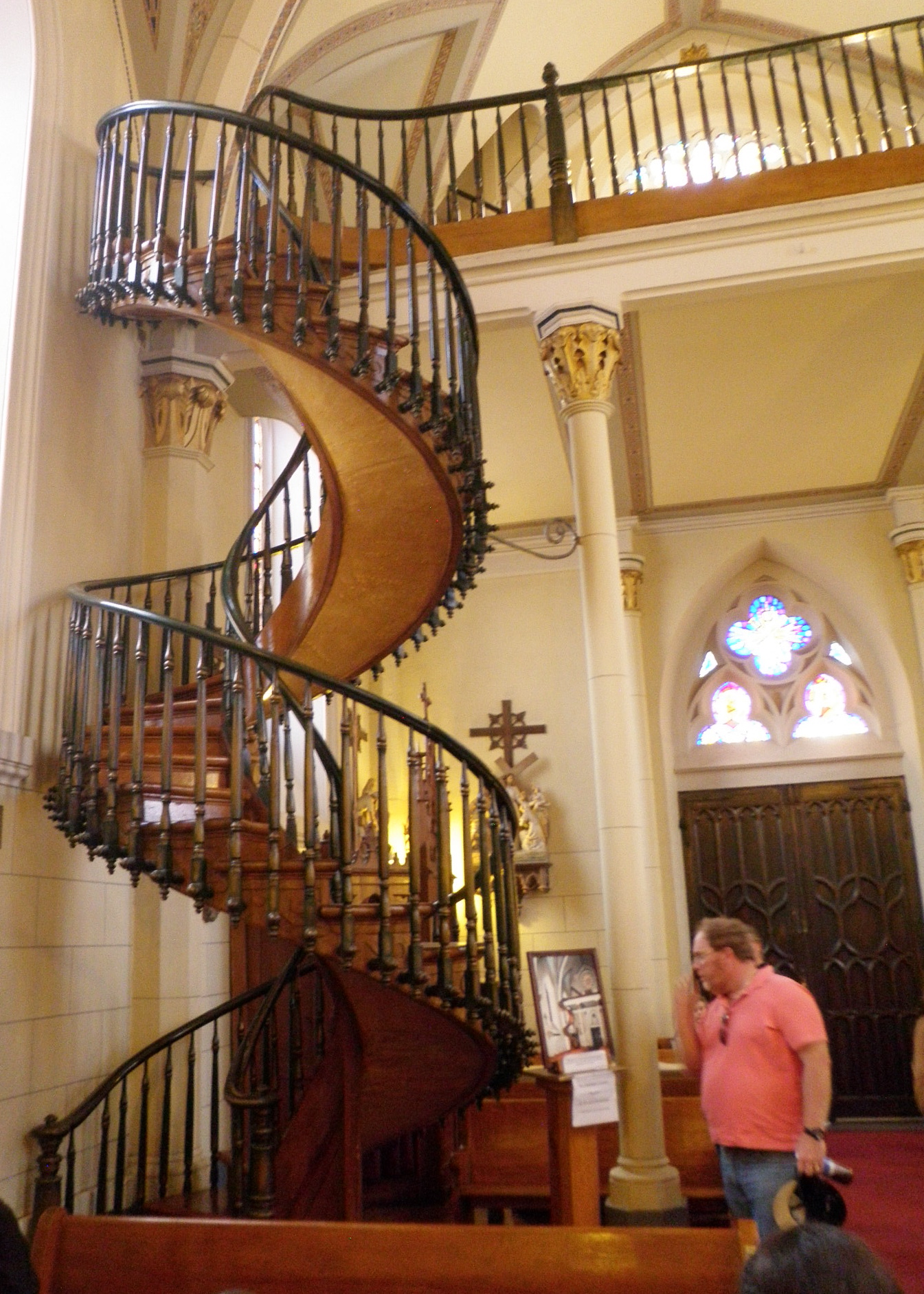 The miracle staircase in Santa Fe's Loretto Chapel, the subject of many legends and myths. Photo by Benjamin Radford.